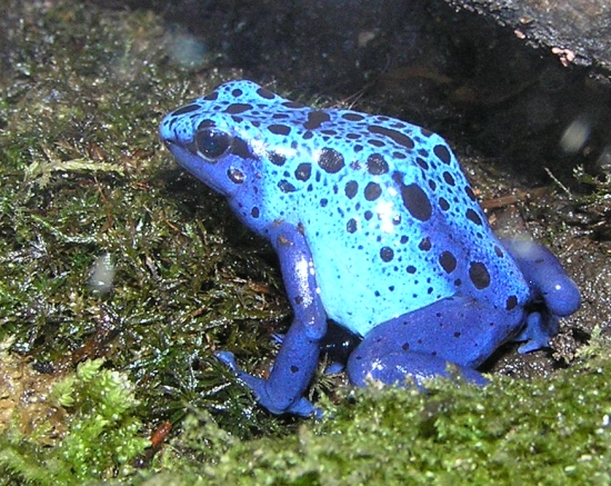 Dendrobates azureus is widely known as the Blue Poison Dart Frog or by its Tirio Indian name, Okopipi.This type of poison dart frog is found in South America, specifically in the Sipaliwini District in Suriname. The frog has blue skin and black patches, which serve as a warning to would-be predators that the skin contains a deadly neurotoxin